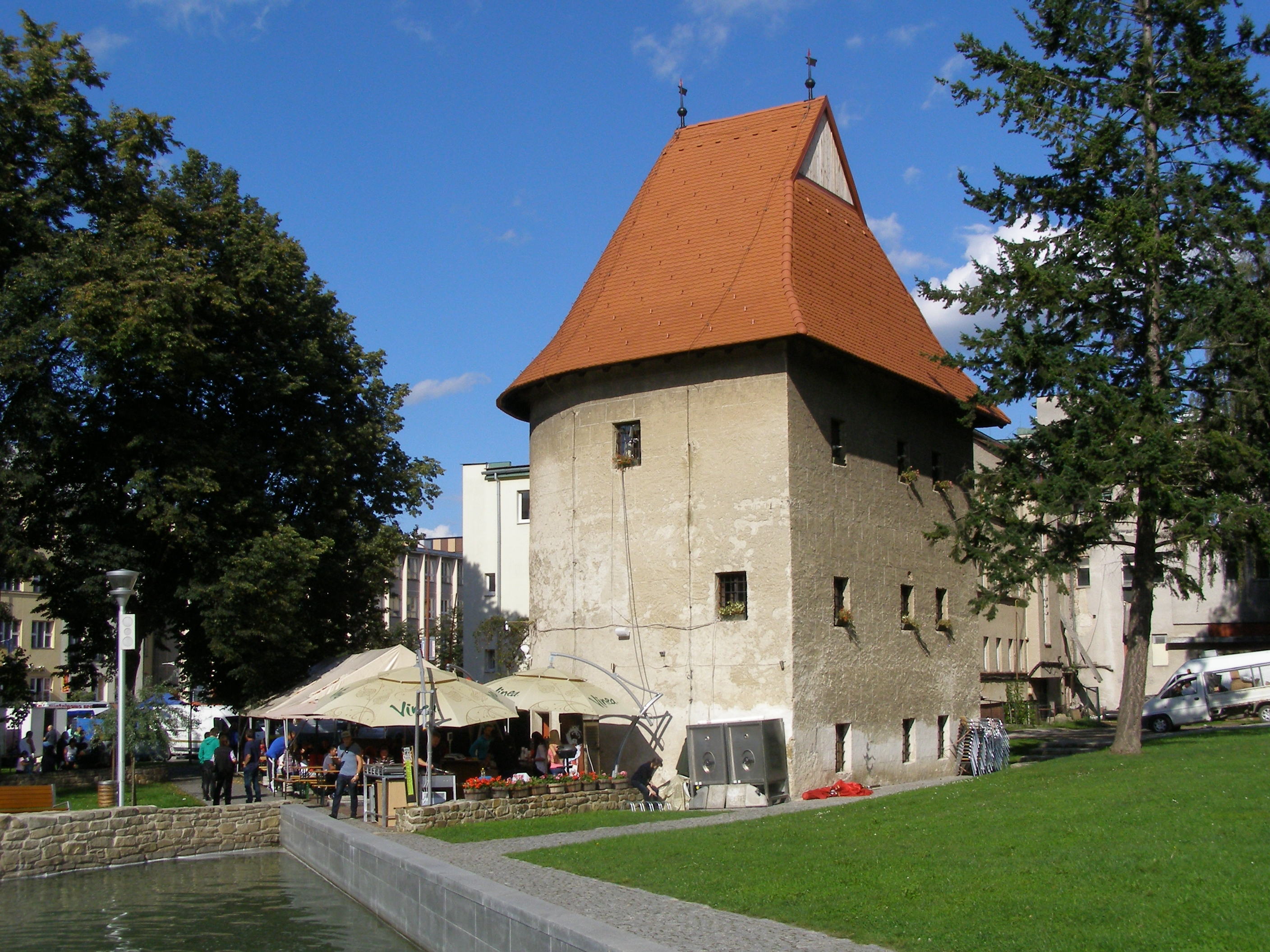 Bardejov - tower